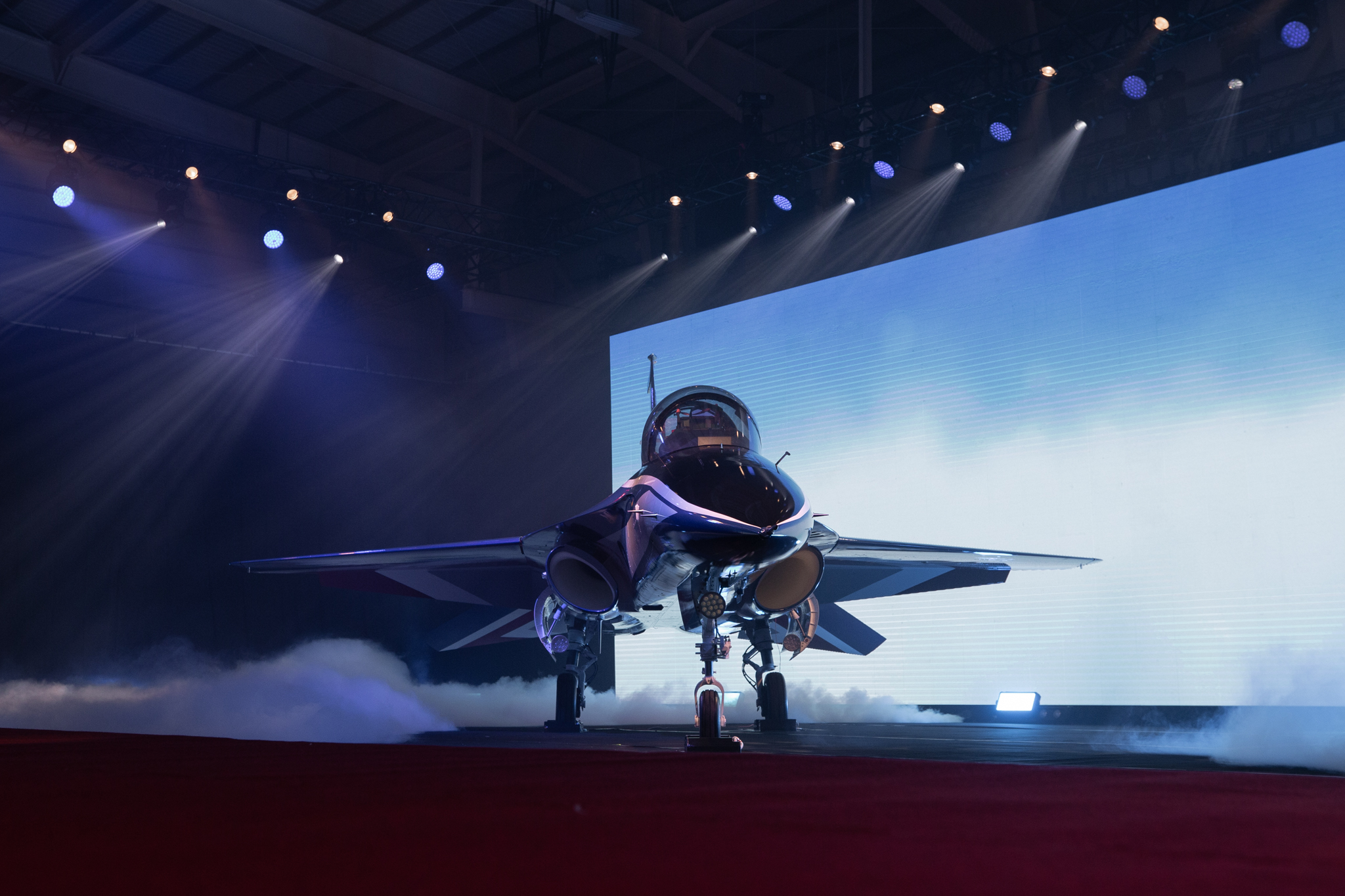 Official Photo by Mori / Office of the President